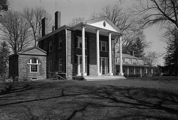 Belvidere, South of intersection Camp Road & Gibson Hill Road, Belvidere vicinity (Allegany County, New York) cropped This file comes from the Historic American Buildings Survey (HABS), Historic American Engineering Record (HAER) or Historic American Landscapes Survey (HALS). These are programs of the National Park Service established for the purpose of documenting historic places. Records consist of measured drawings, archival photographs, and written reports. When reusing please credit: Library of Congress, Prints & Photographs Division, NY,2-BELVI,1-5 This tag does not indicate the copyright status of the attached work. A normal copyright tag is still required. See Commons:Licensing. This work is in the public domain in the United States because it is a work prepared by an officer or employee of the United States Government as part of that person’s official duties under the terms of Title 17, Chapter 1, Section 105 of the US Code. Note: This only applies to original works of the Federal Government and not to the work of any individual U.S. state, territory, commonwealth, county, municipality, or any other subdivision. This template also does not apply to postage stamp designs published by the United States Postal Service since 1978. (See § 313.6(C)(1) of Compendium of U.S. Copyright Office Practices). It also does not apply to certain US coins; see The US Mint Terms of Use. This file has been identified as being free of known restrictions under copyright law, including all related and neighboring rights. Object location42° 15′ 54″ N, 78° 01′ 50″ W